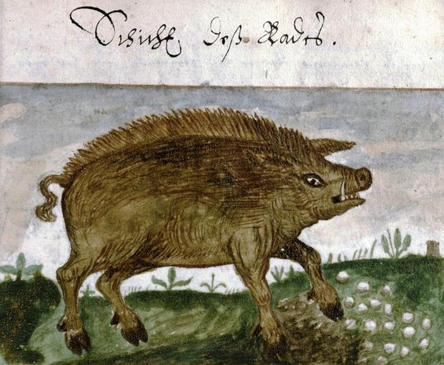 Braunschweig, Hermann Bote, Schichtbuch from 1514: Allegory of the “Großen Schicht“ from 1374.